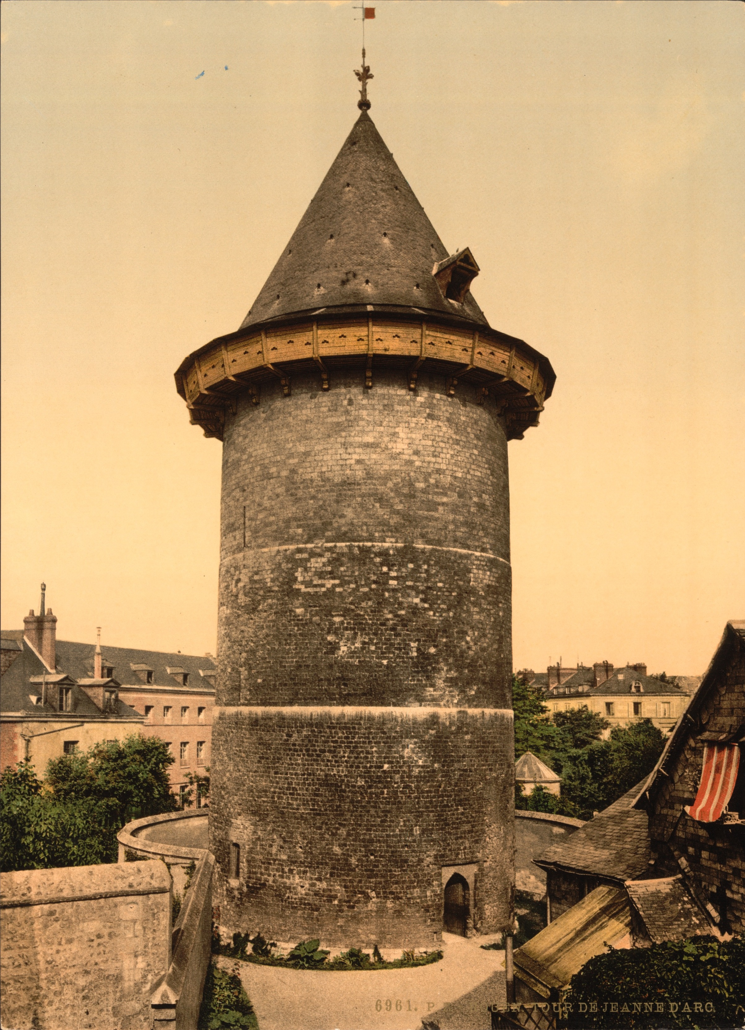 Joan of Arc's Tower, Rouen, France. Published by Photochrom Zürich. No. 6761.